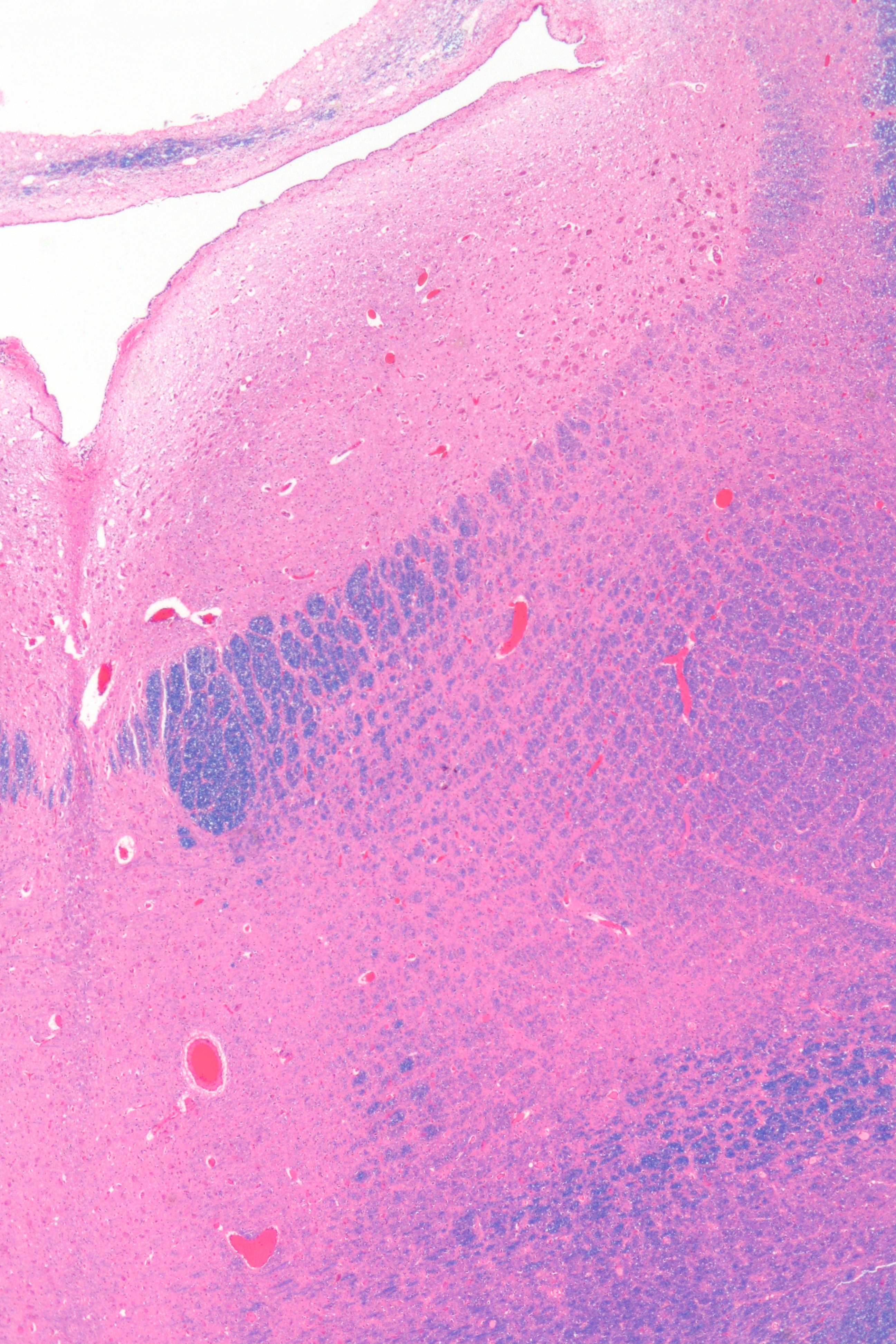 Very low magnification micrograph of the locus ceruleus, also spelled locus coeruleus, a nucleus found in the rostral pons in the lateral floor of the fourth ventricle. It literally means blue spot, based on its gross appearance. It is a center of norepinephrine (noradrenaline) production. Related images Very low mag. Low mag. Intermed. mag. High mag. Very high mag.